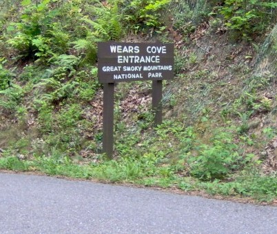 The Wear Cove entrance to the Great Smoky Mountains National Park on Lyon Springs Road, between Wears Valley, Tennessee and the Metcalfe Bottoms Campground, near Elkmont.